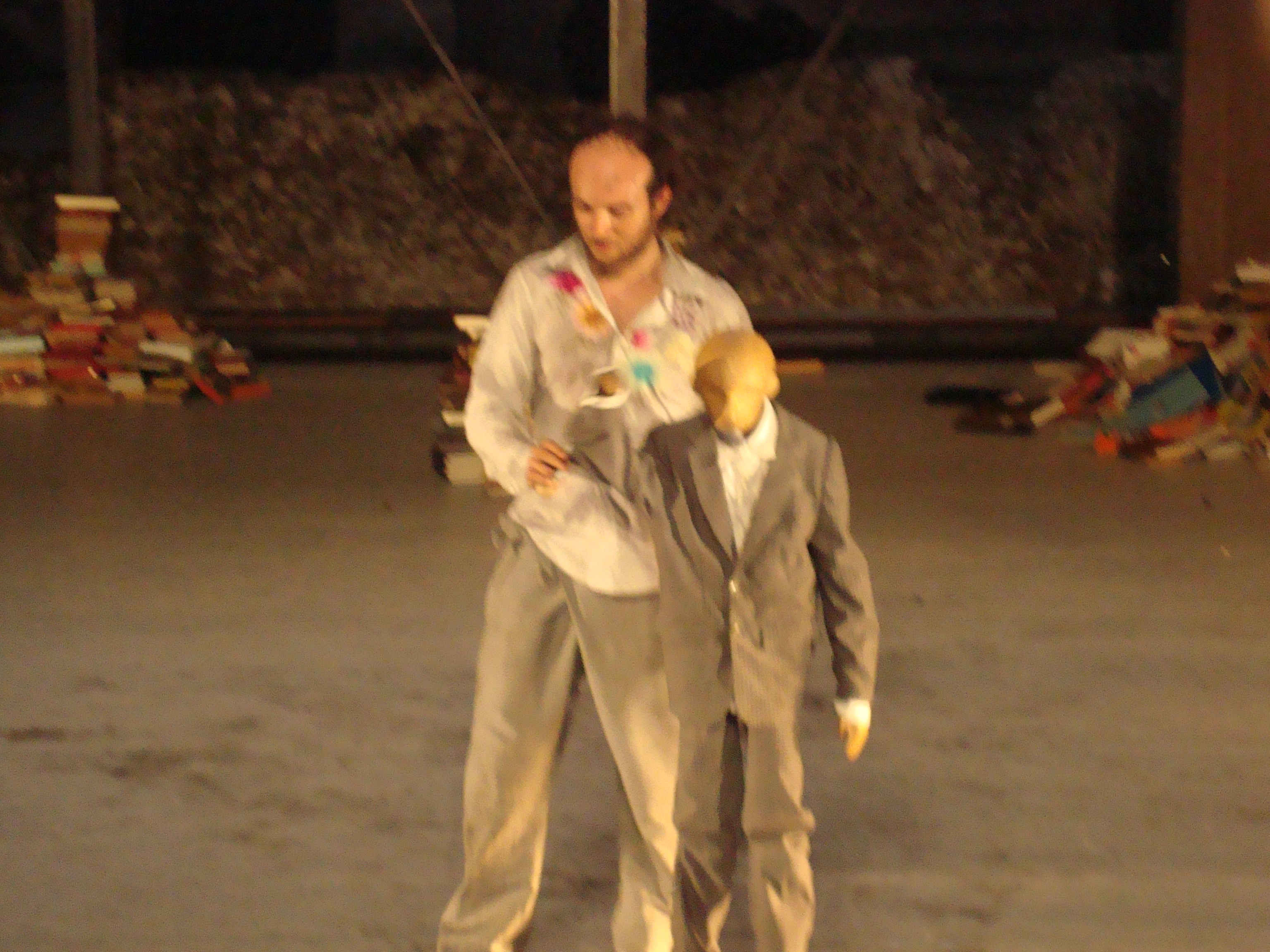 The choreographer Sidi Larbi Cherkaoui at the end of Apocrifu, June 24th 2009, Villa Adriana, Tivoli